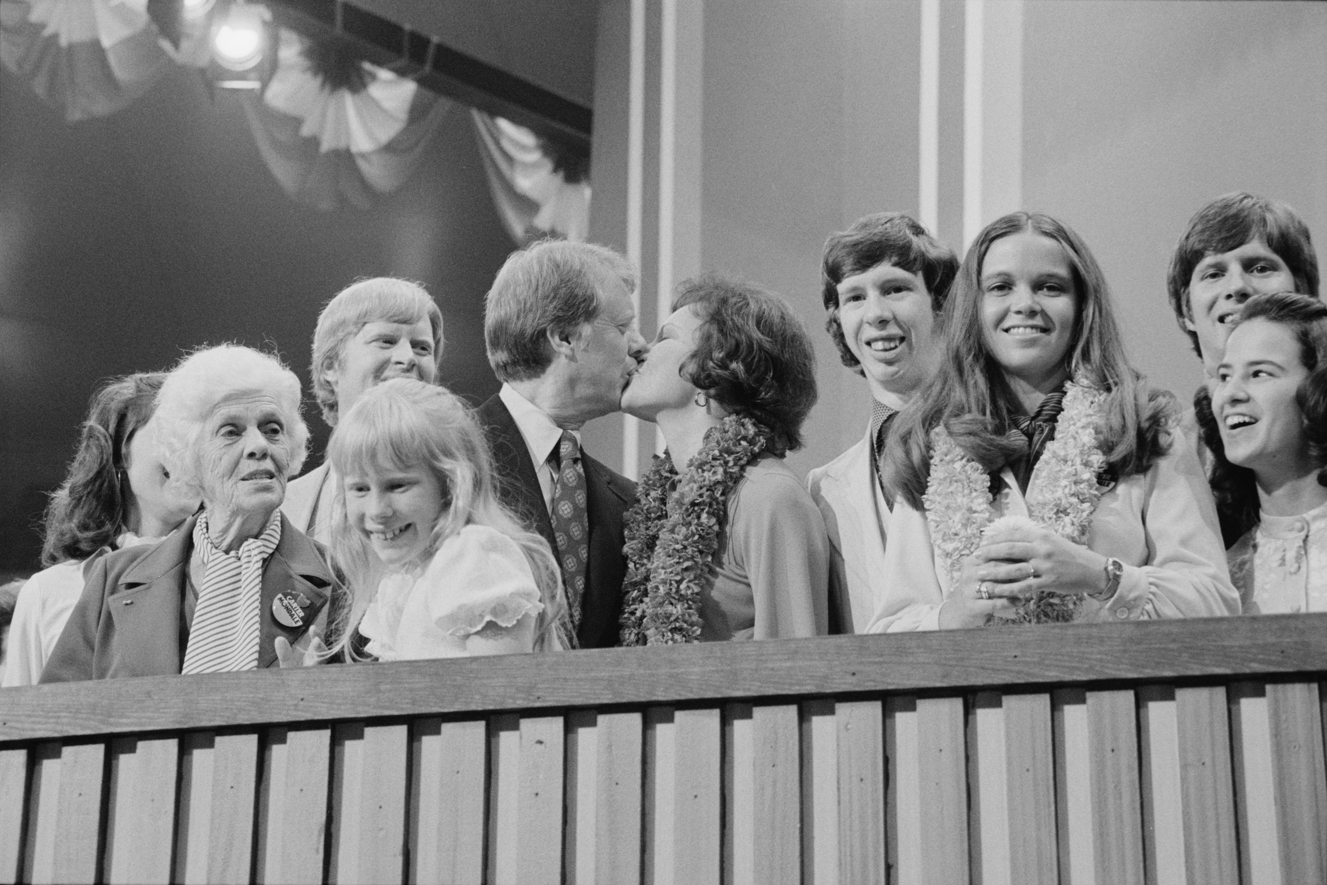 Jimmy and Rosalynn Carter kissing, surrounded by family, including Amy and Lillian, at the Democratic National Convention, New York City